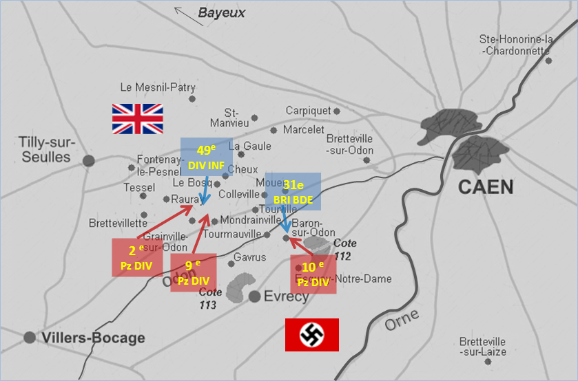 Operation Epsom main movements on 1944, July 1